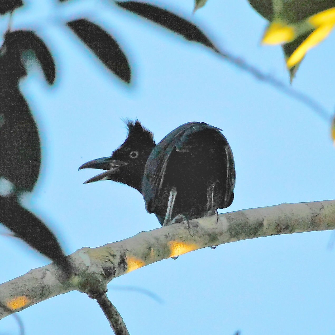 Amazonian umbrellabird; Alta Floresta, Mato Grosso, Brazil